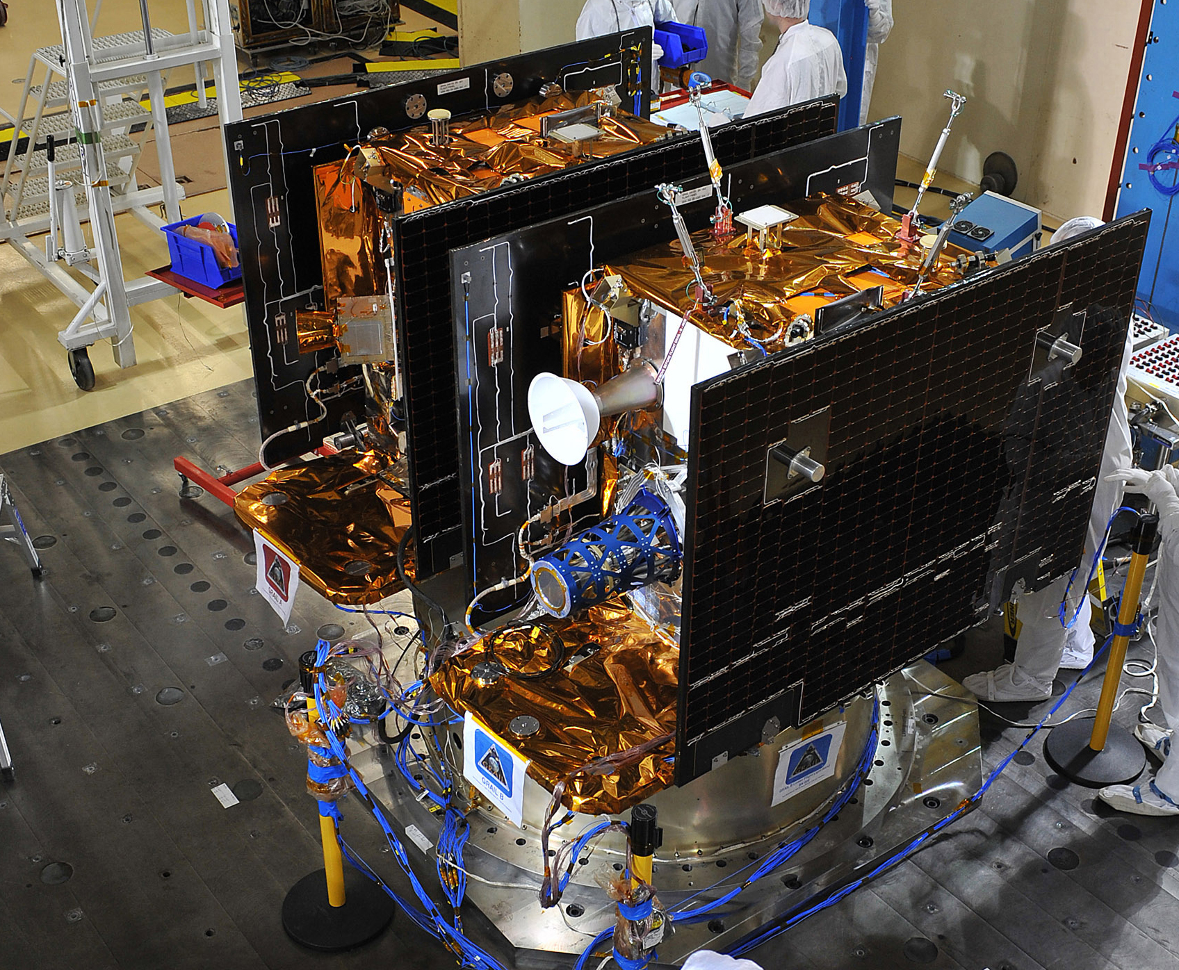 Technicians Get GRAIL Spacecraft Ready for Launch The Gravity Recovery And Interior Laboratory (GRAIL) mission utilizes the technique of twin spacecraft flying in formation with a known altitude above the lunar surface and known separation distance to investigate the gravity field of the moon in unprecedented detail. The technique utilizes radio links between the two spacecraft as well as radio links to stations on Earth. The mission also will answer longstanding questions about Earth's moon, including a possible inner core, and provide scientists with a better understanding of how Earth and other rocky planets in the solar system formed. GRAIL is a part of NASA's Discovery Program.